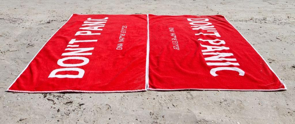 Don't Panic towel